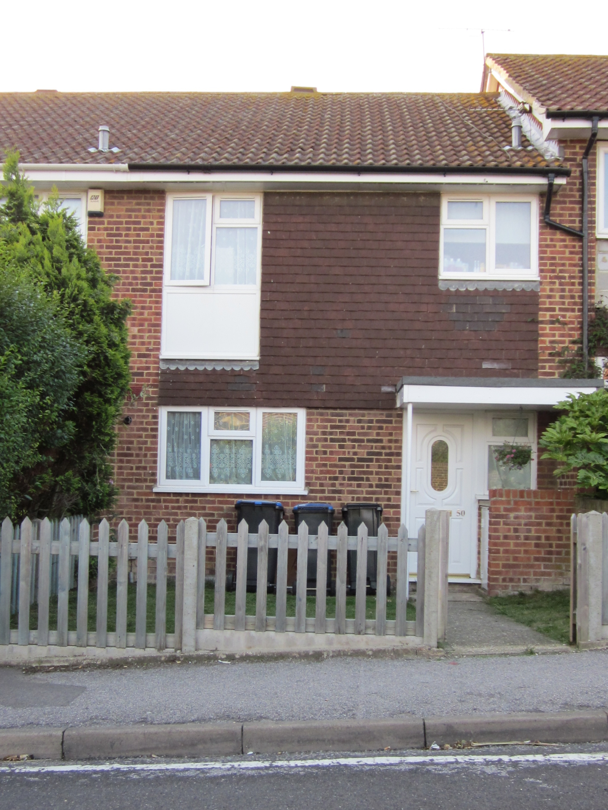 50 Irvine Drive, Margate, UK. Serial killer Peter Tobin lived here 1991-3 and the bodies of two of his victims, Vicky Hamilton and Dinah McNicol, were found in the garden.